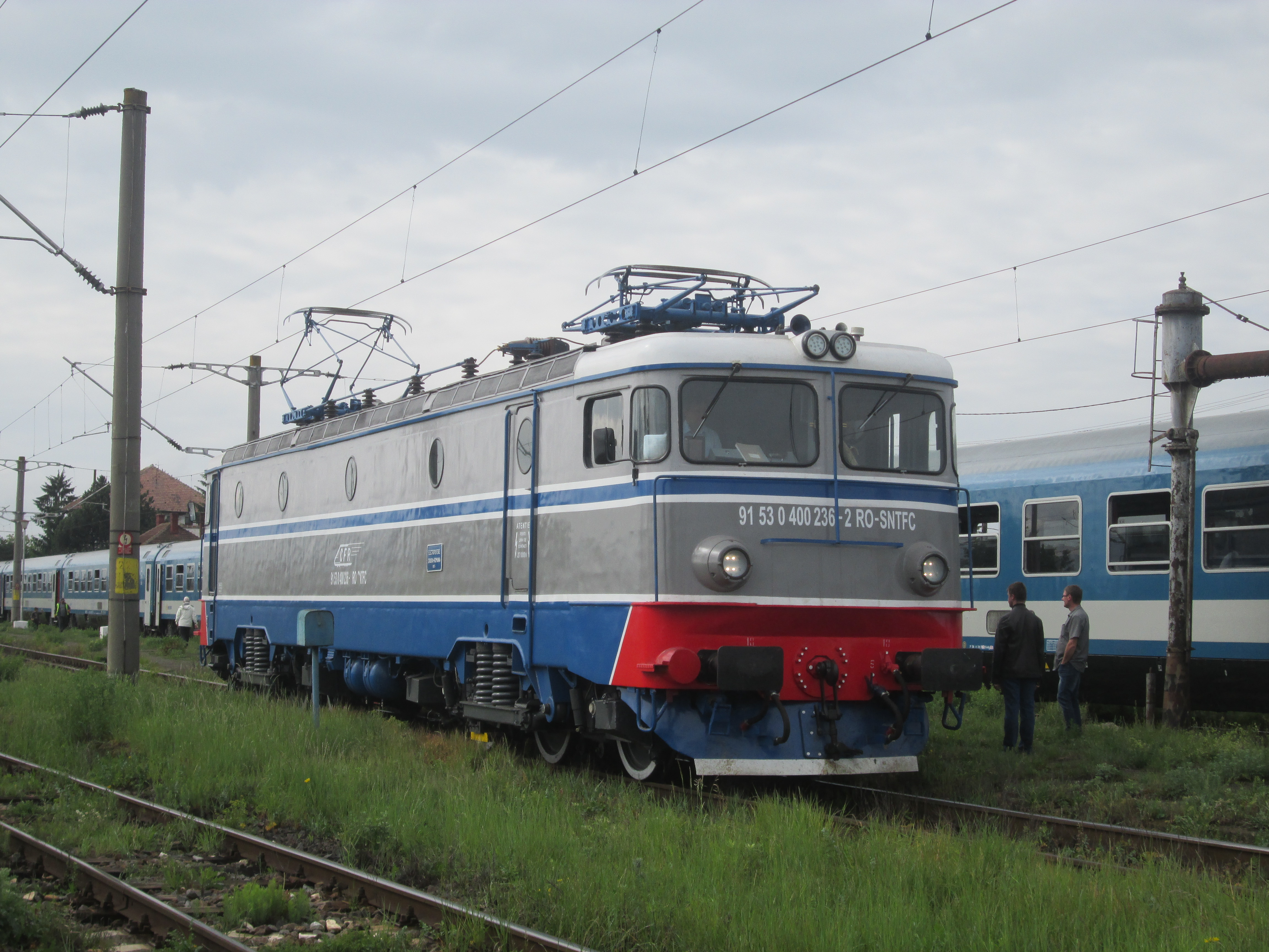 CFR 400 236 at Siculeni railway station, after the overhaul in April 2018